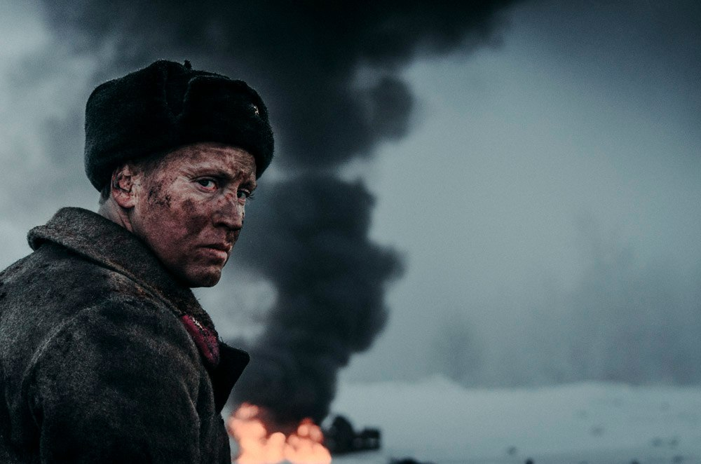 Photo of the Russian actor Yakov Kucherevski playing the role of Dobrobabin in the film Panfilov's 28 men